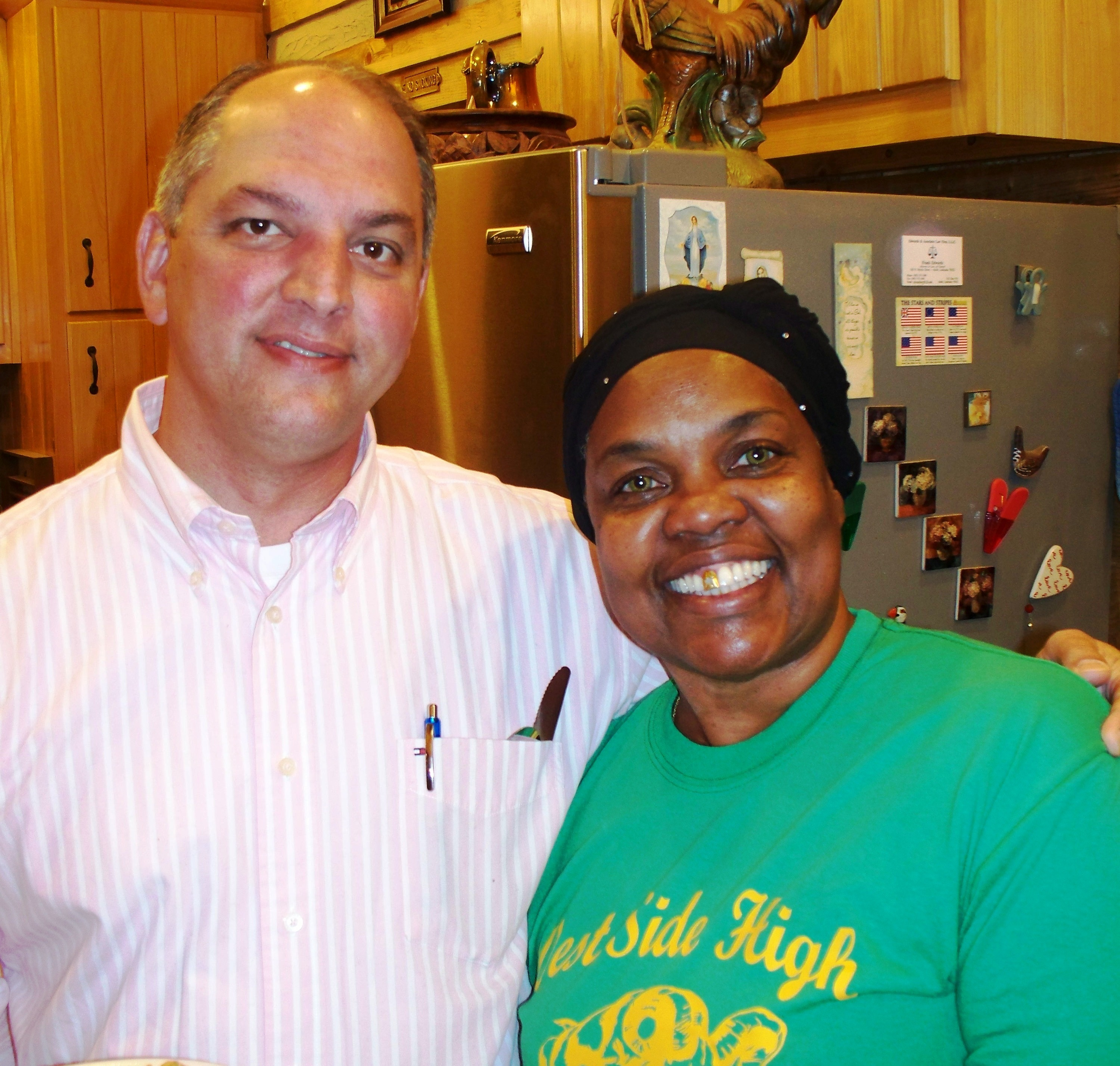 John Bel Edwards and his constituent Janet Taylor